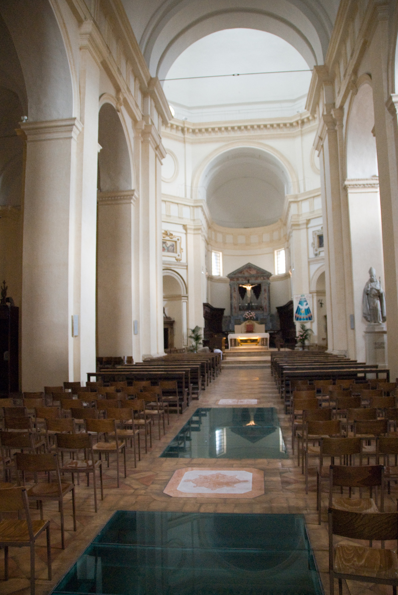 San Rufino Church (Assisi), Italy